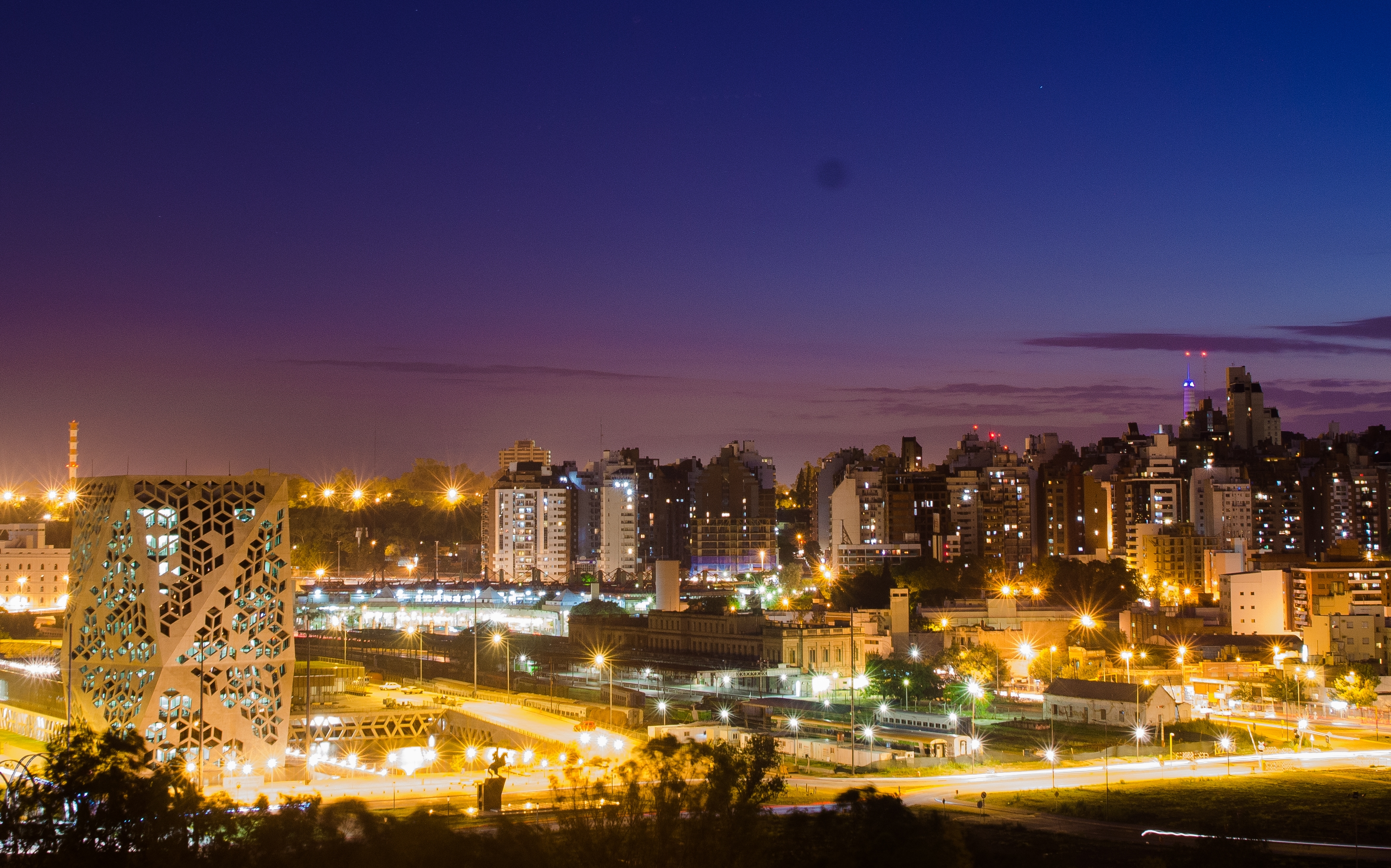 Córdoba City (Argentina)